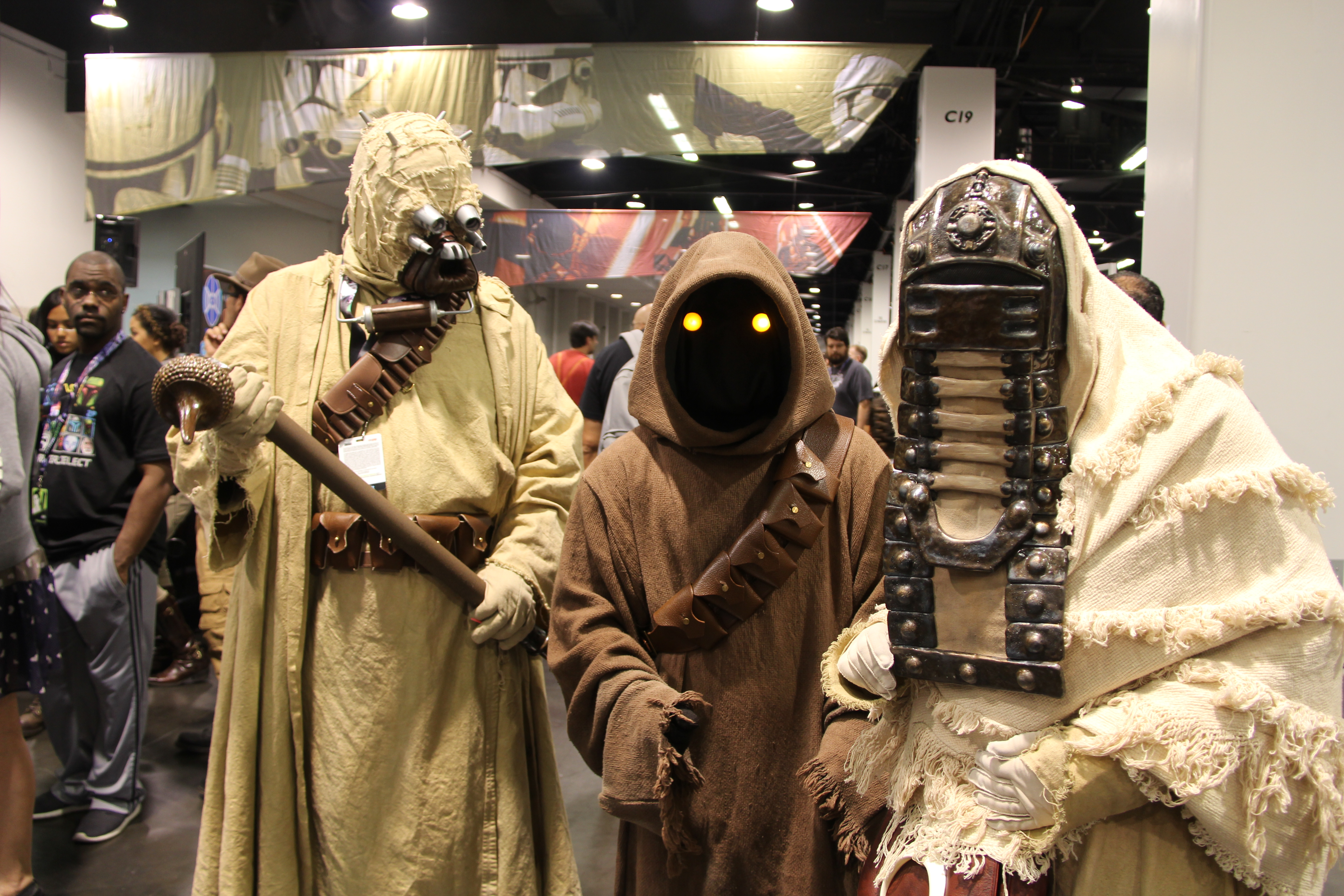 A cosplay of Tusken Raders [male - left, female - right] and a Jawa [center] Star Wars Celebration in Anaheim, April 2015.